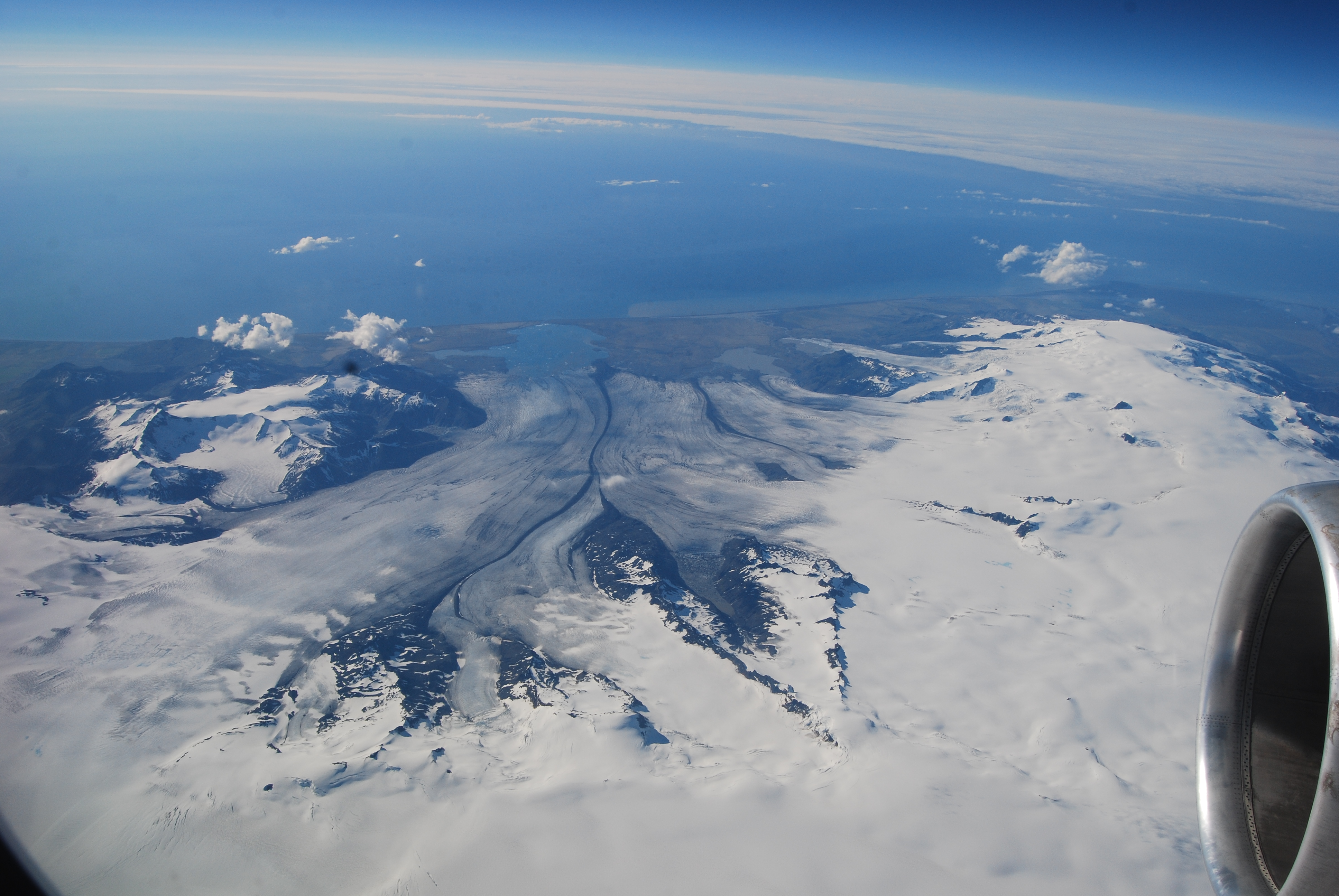 Aerial photograph of Vatnajökull from plane